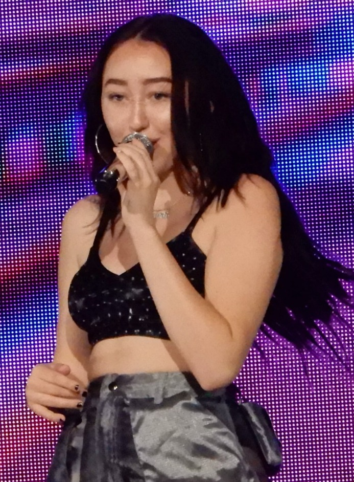 Noah Cyrus Opening for Katy Perry in Newark